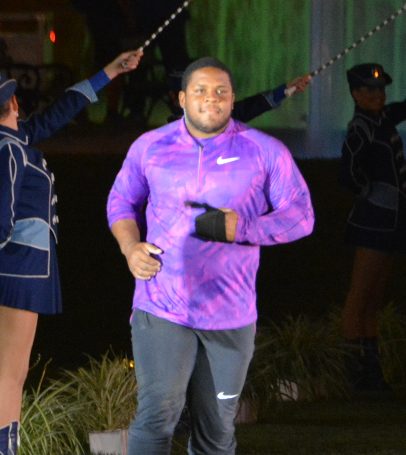 O'Dayne Richards at the shot put event, 2015 Hanžeković Memorial in Zagreb.